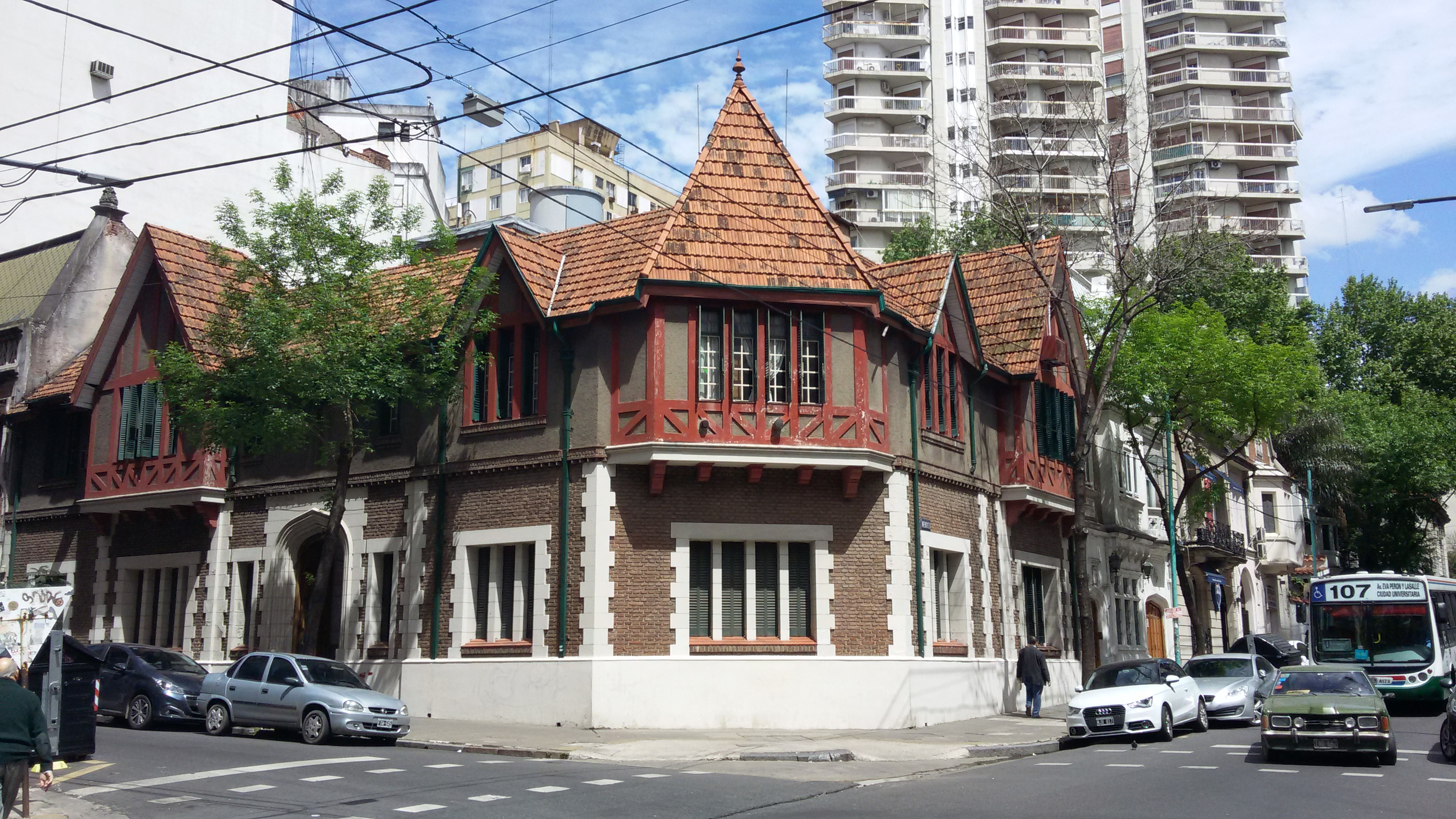 Old house in a Northern European style in the Belgrano neighbourhood, Buenos Aires